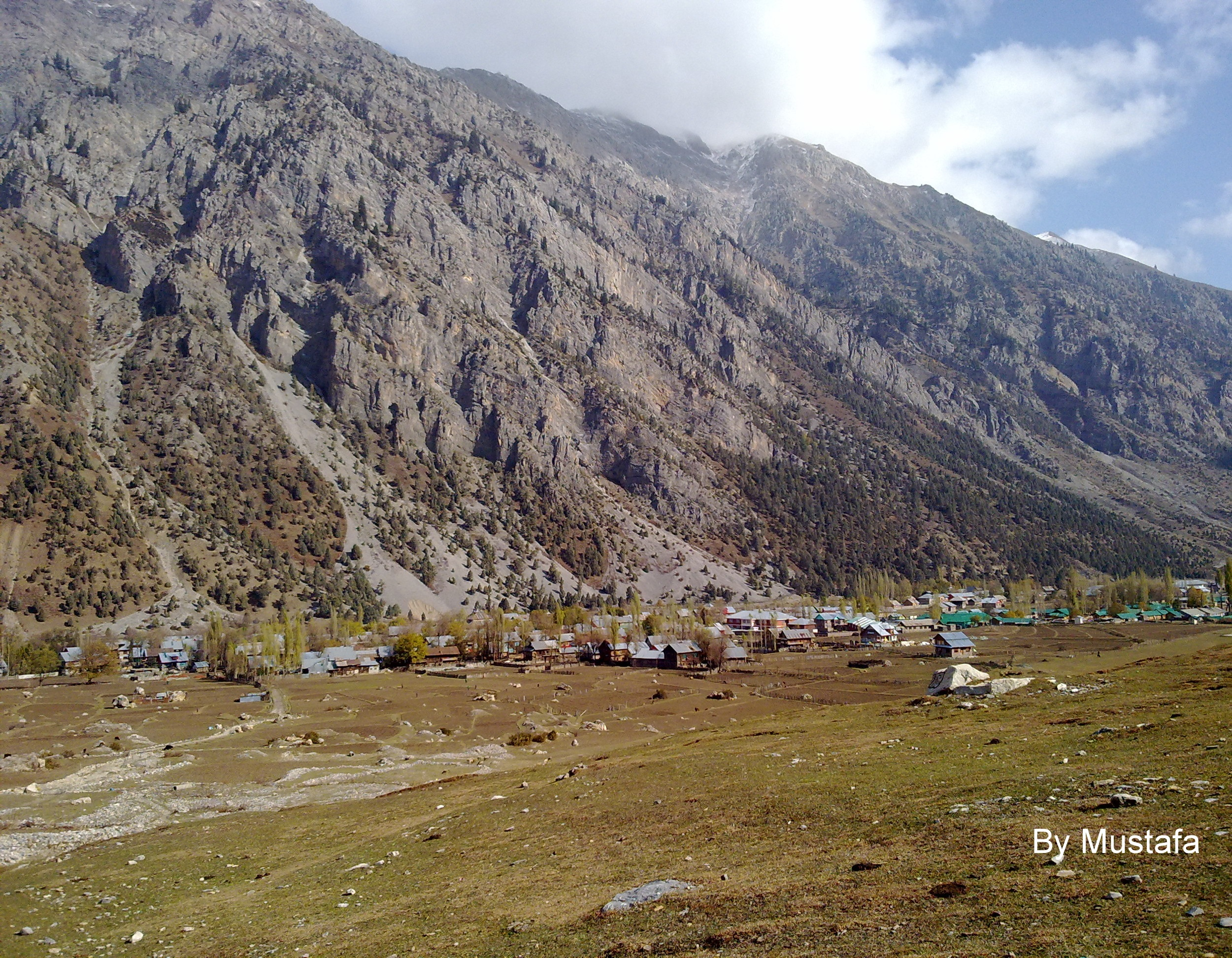 dawar